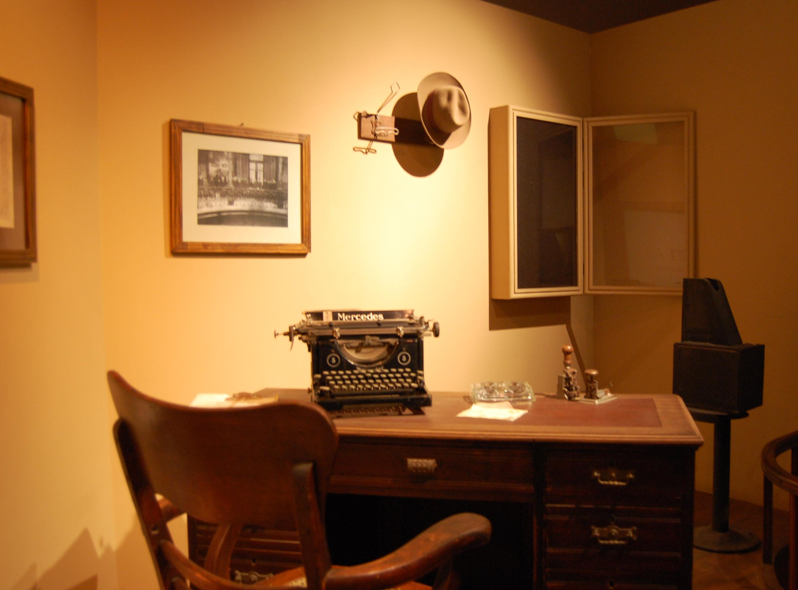 Francisco Pascasio Moreno's Office representation, in La Plata Museum, Argentina.